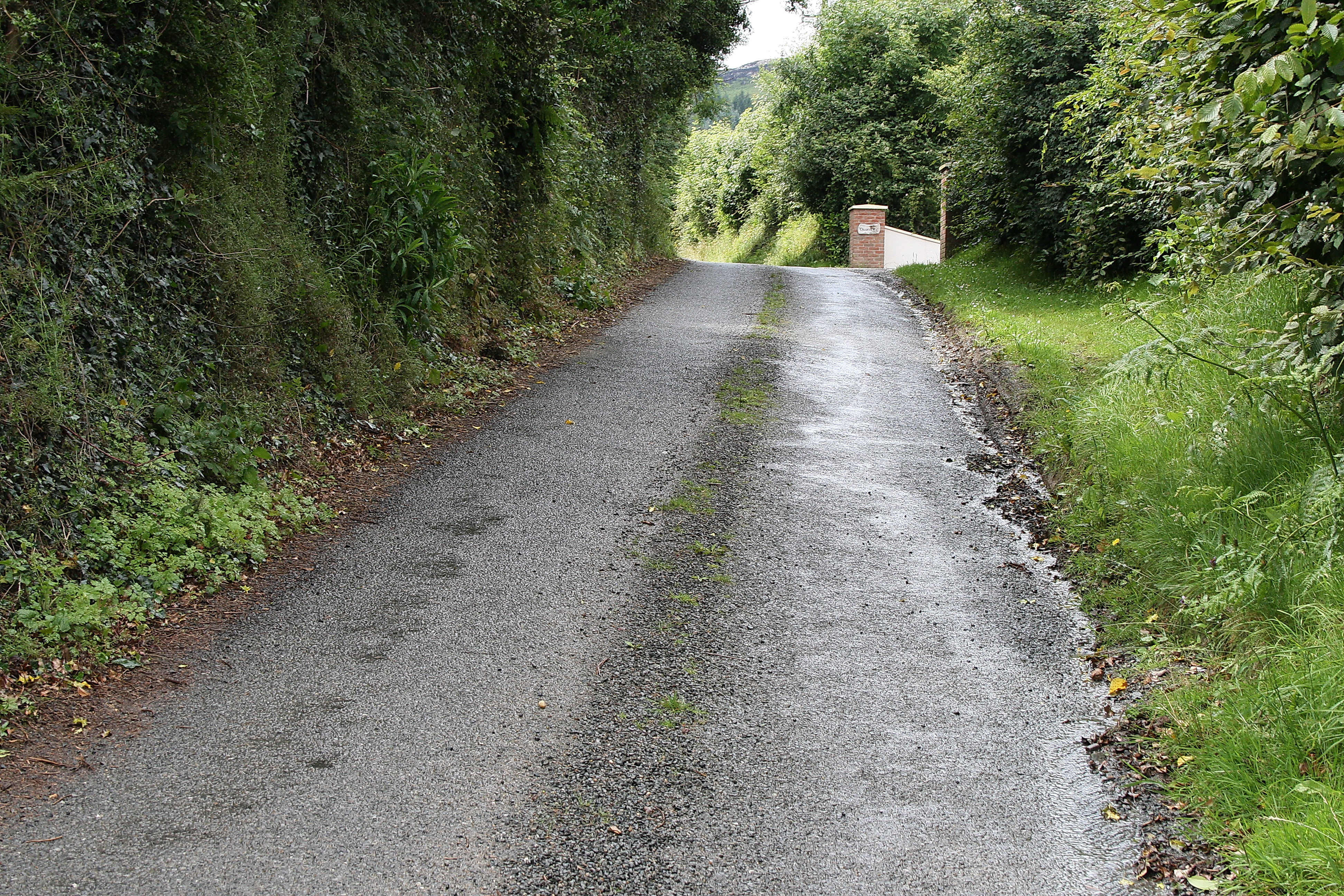 This is a Regional Road in County Wicklow, Ireland. The grass median is due to the fact the road is only one car-width wide so there is never any traffic on the centre. For vehicles to pass, one of them must reverse into the nearest entrance to a house or a field in order to let the other pass.